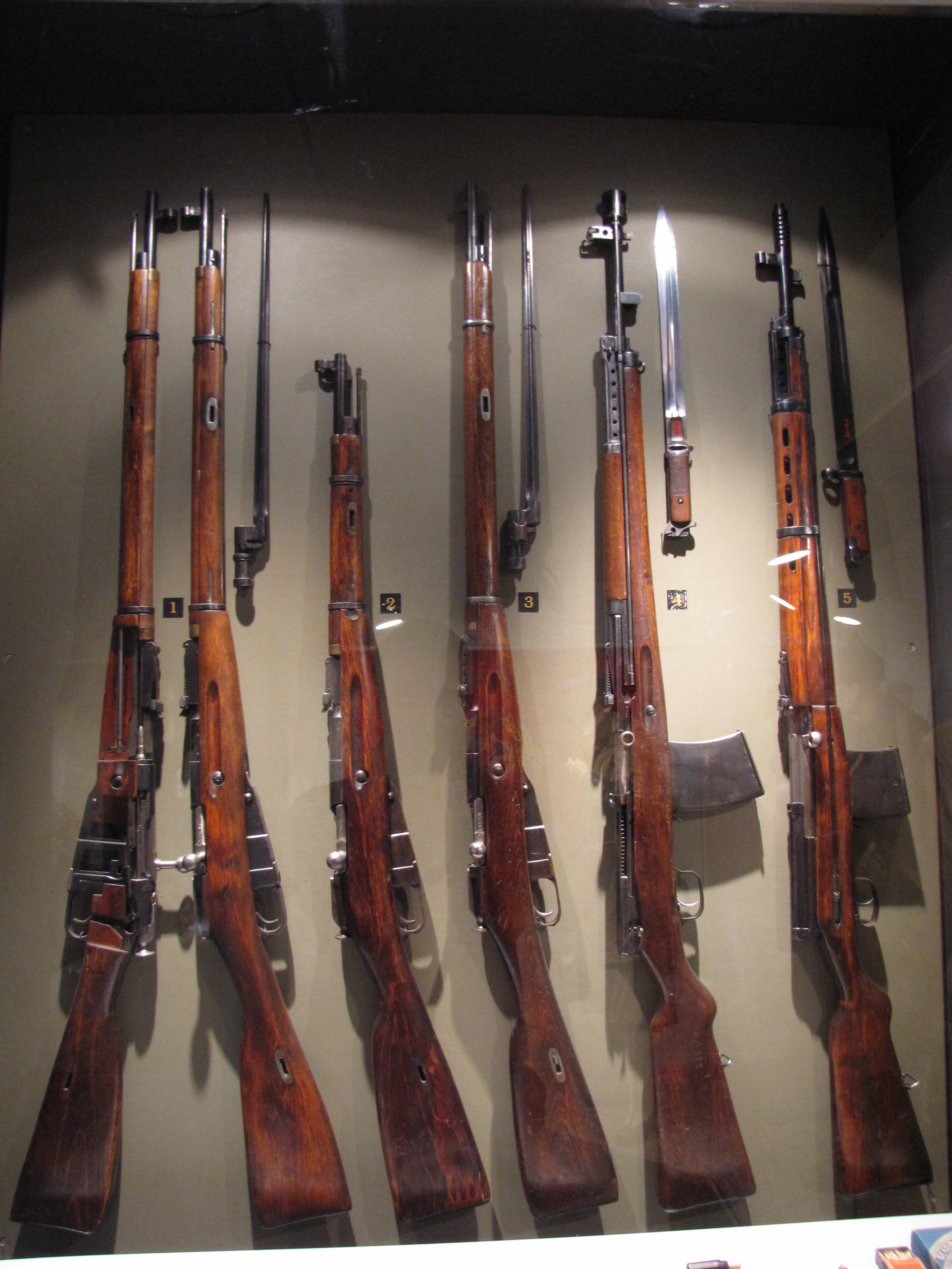 Infantry rifles used by red army during World War II. Mosin–Nagant M/91-30, a sectioned example and normal one, with M/91-30 bayonet. Mosin-Nagant M/38 carbine. Mosin-Nagant M91 dragoon rifle with Kabakov bayonet. AVS-36 automatic rifle with M/36 bayonet. SVT-38 semi-automatic rifle with bayonet M/38. Photographed in the "Winter War - 70 years" exhibition in the Military Museum of Finland.